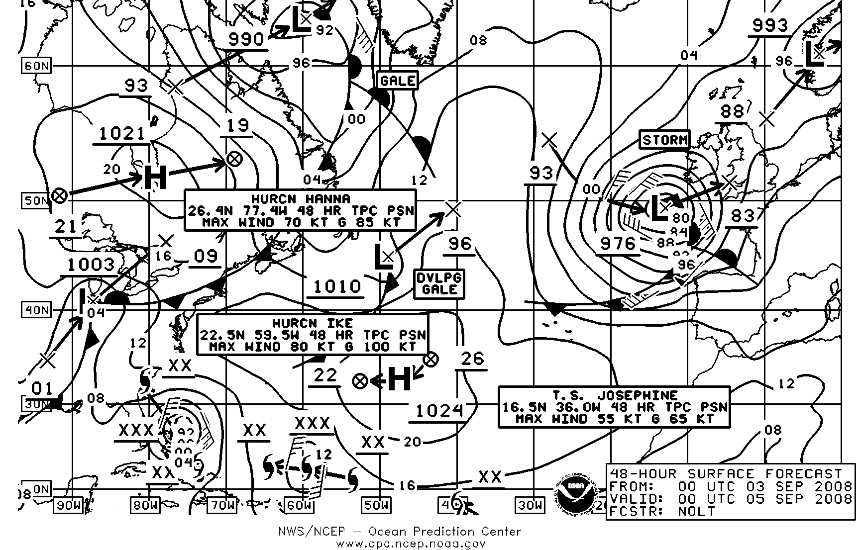 A 48 hour surface pressure forecast from the Ocean Prediction Center (OPC), part of the US National Weather Service.